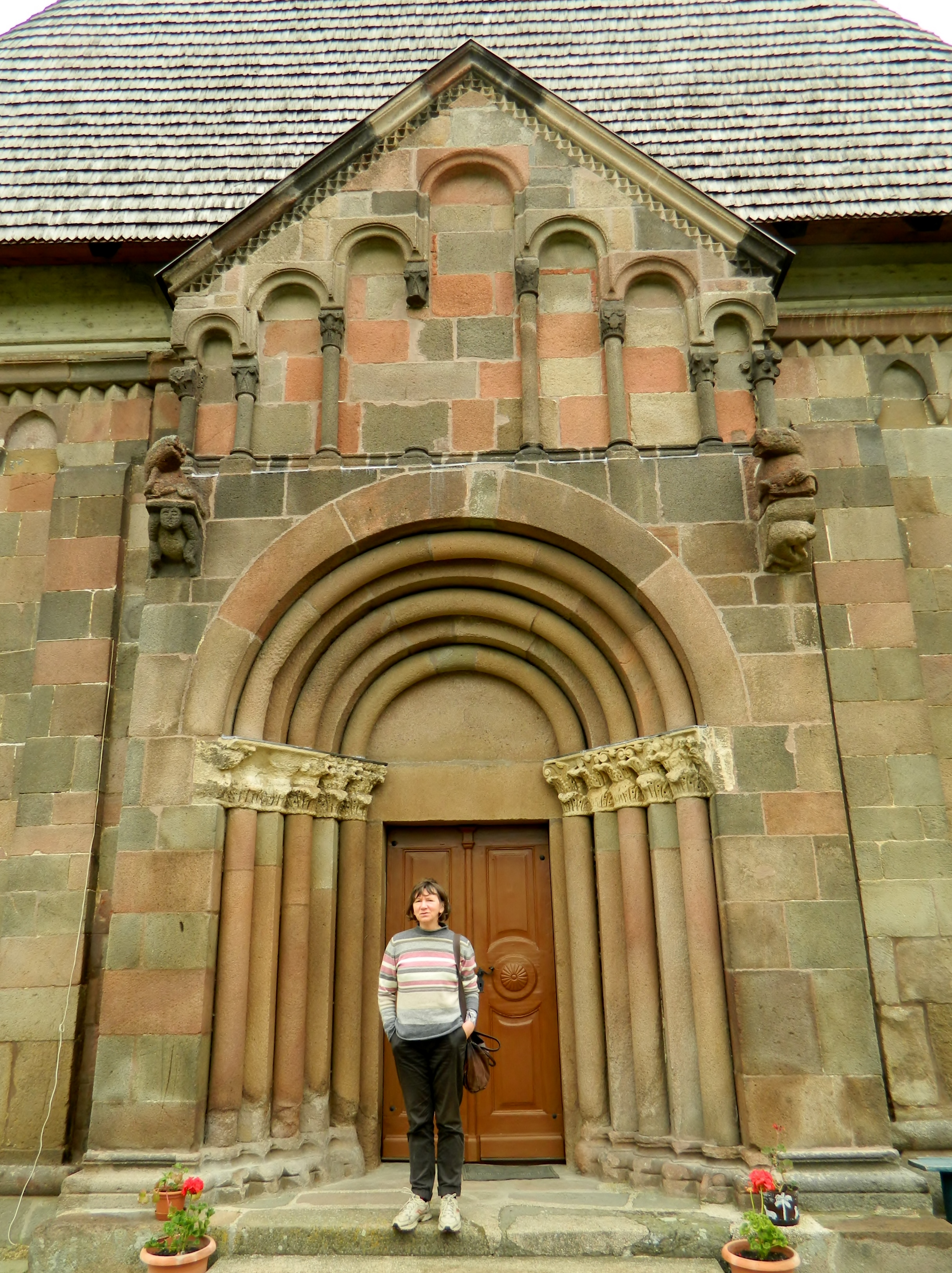 Reformed church in Karcsa west entrance